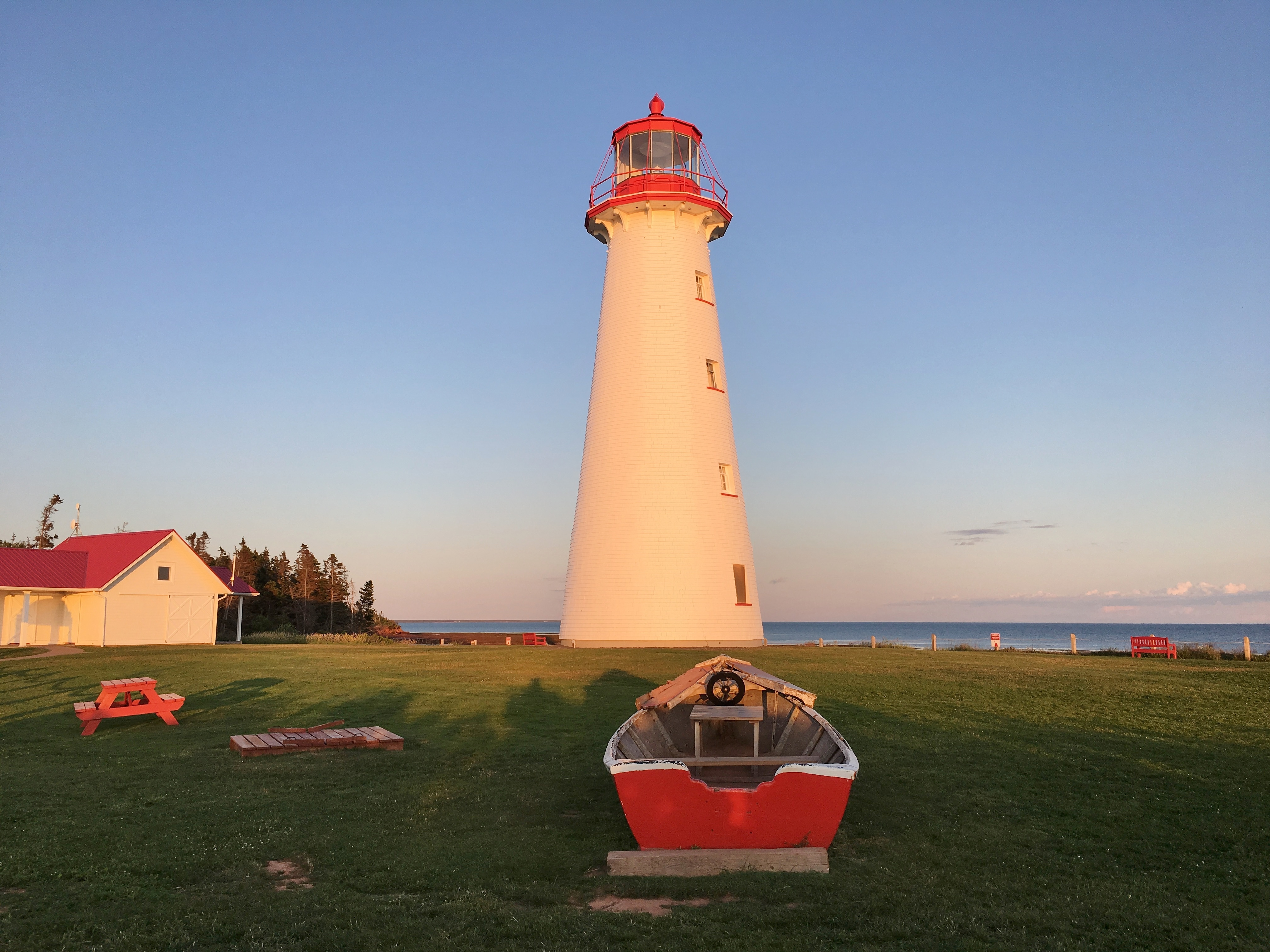 Photograph of Point Prim Lighthouse, located in Belfast, Prince Edward Island, Canada - taken at sunset on August 5, 2019.